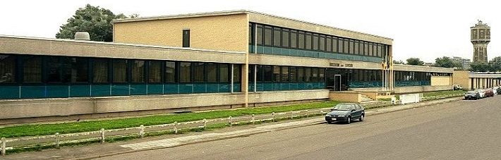 Building of the Sea Fisheries Department - Oostende, Belgium.